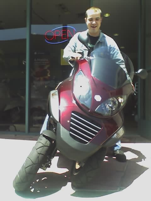 Picture taken by me to give an example of the tilting suspension. Person in photograph: Toof.